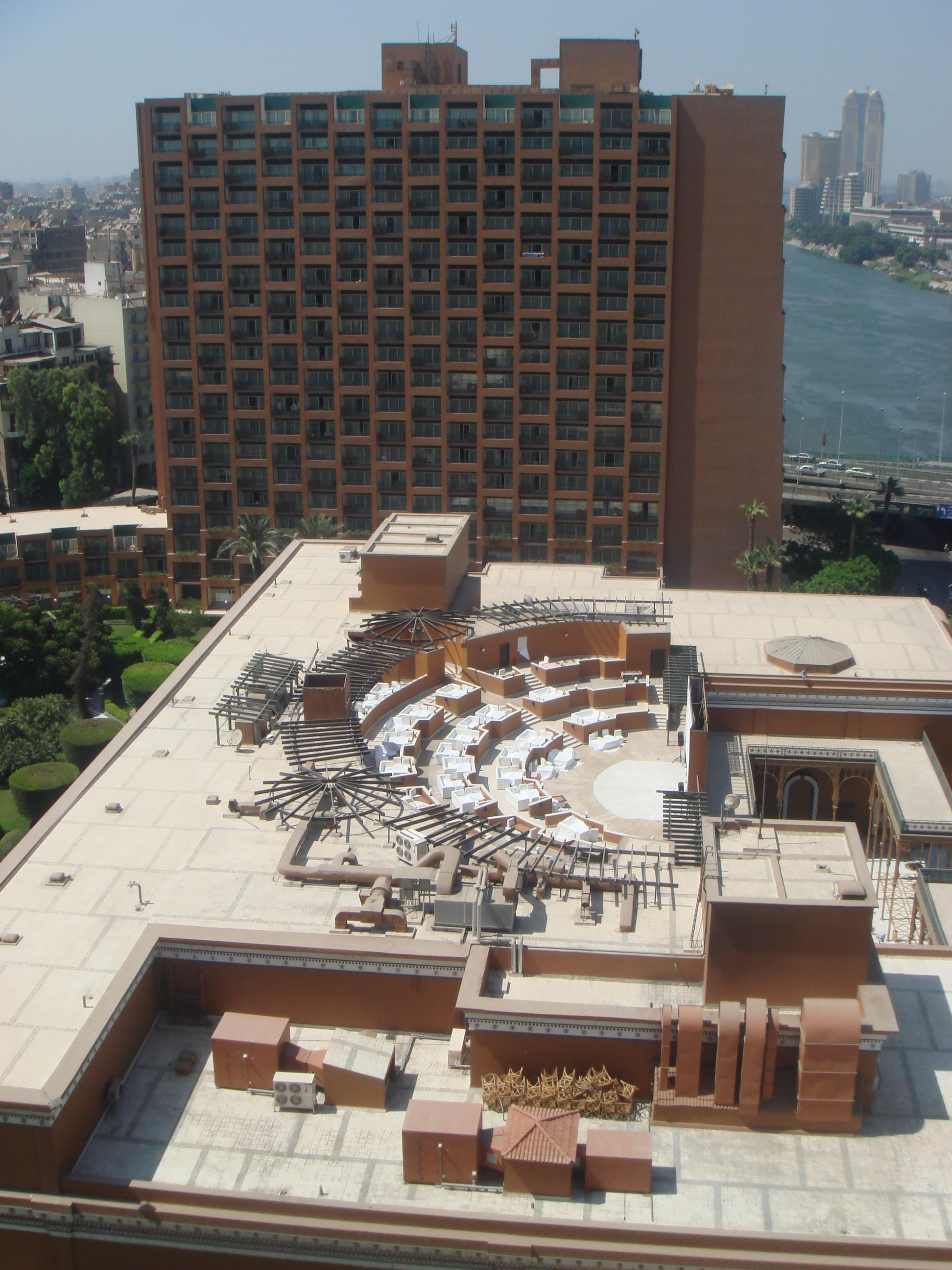 A view of the Zamelek Tower and palace of the Cairo Marriott Hotel from the Gezira Tower (of the same hotel). The Nile can be seen to the right.